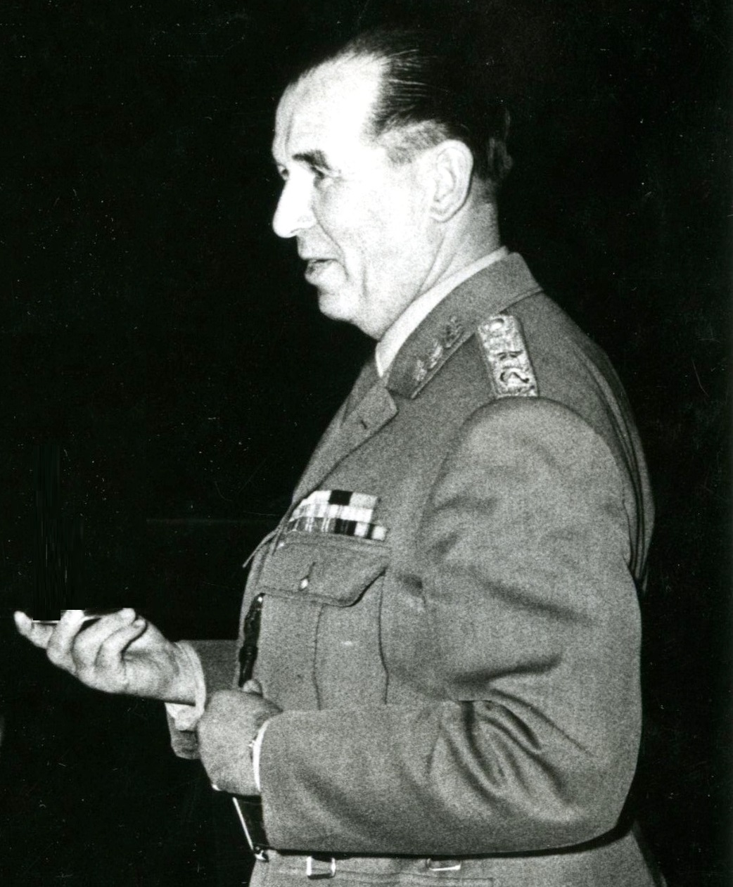 Military championship in orienteering in 1962 in the area of Värnamo was arranged by Småland Artillery Regiment (A 6). Competition leader was C-G Billsten. Major General Malcolm Murray awards prizes.